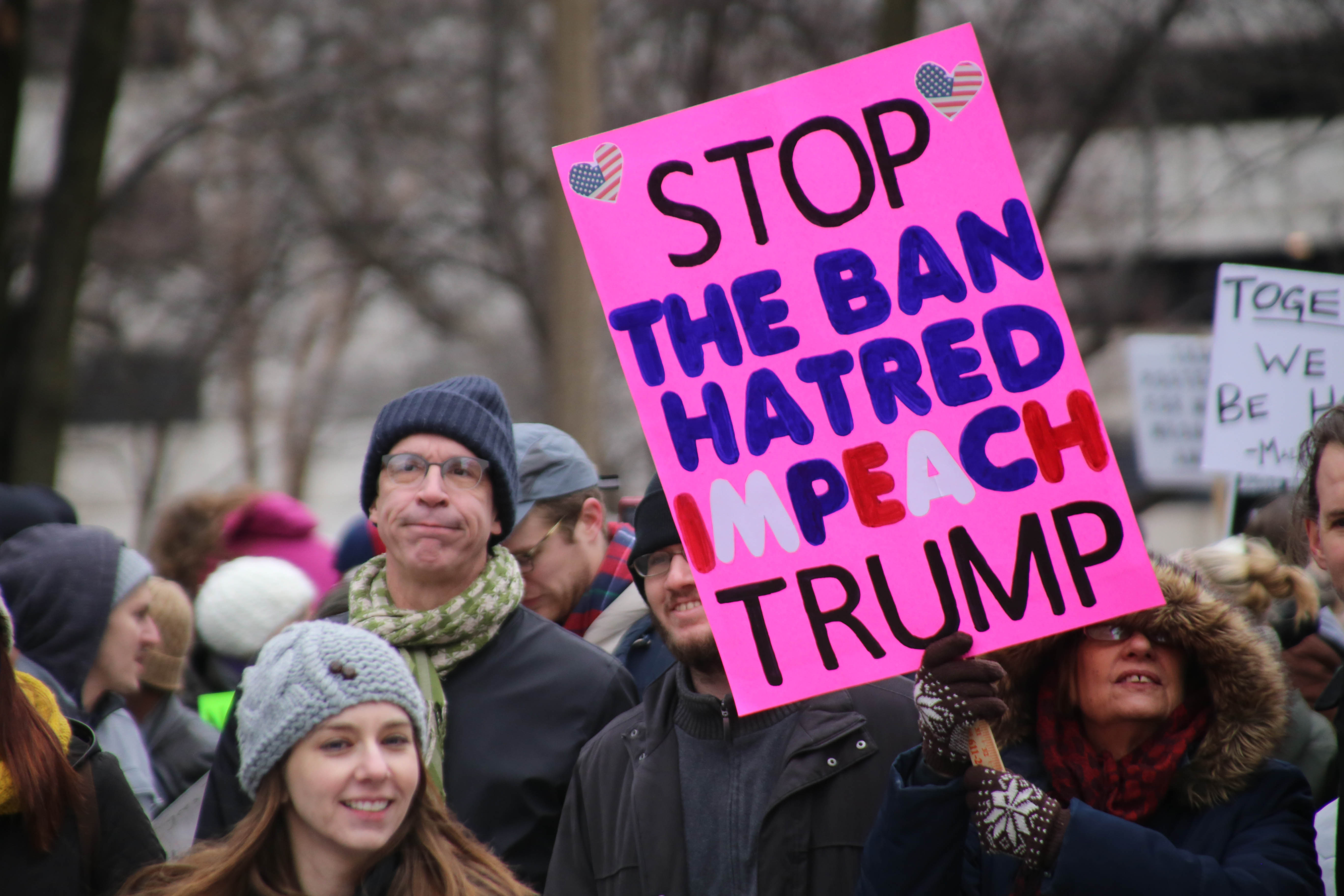 Stop the Ban Hatred Impeach Trump